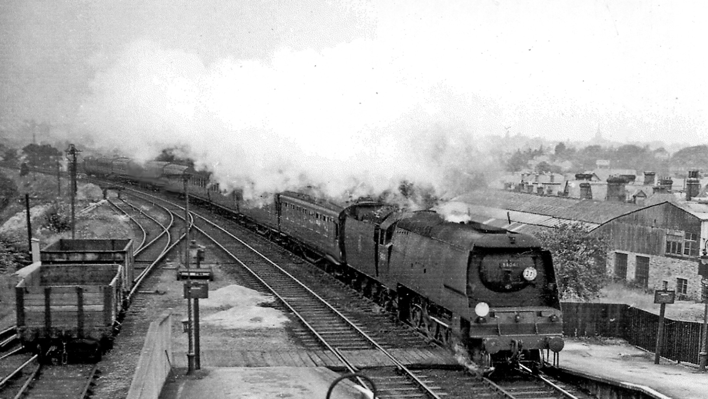 Dorchester - Waterloo express at Parkstone. View SW, towards Poole, Dorchester and Weymouth: ex-LSW Waterloo - Bournemouth - Weymouth main line, also towards Broadstone, the S&D and Wimborne etc. The 13.50 Summer Saturday Dorchester South to Waterloo has Bulleid Light Pacific No. 34041 'Wilton' (built 10/46 as No. 21C141, renumbered 1/49, withdrawn (unrebuilt 1/66).